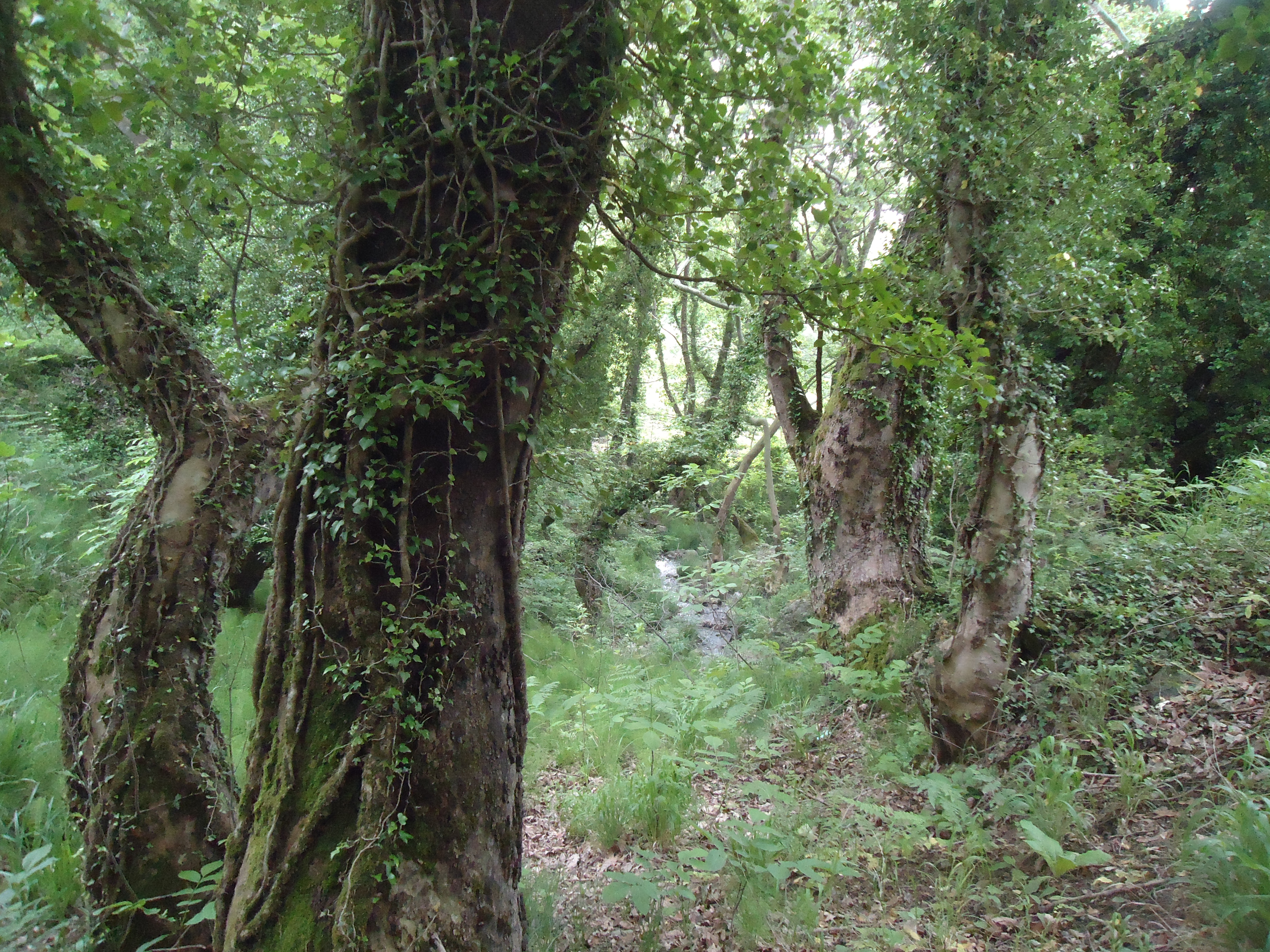 This is a photography of Natura 2000 protected area with ID GR1420007